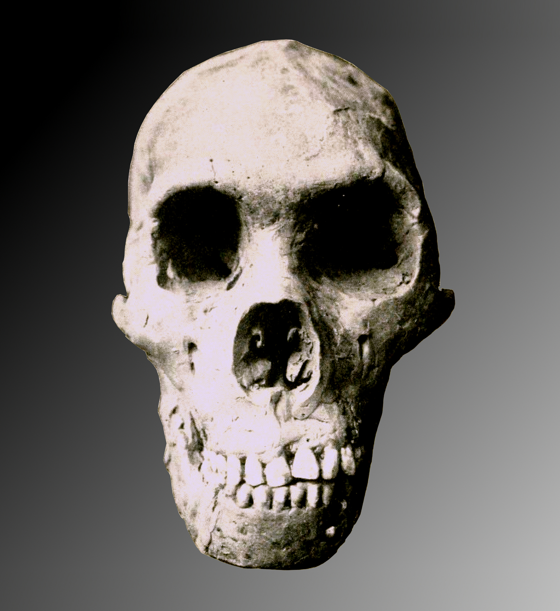 Norma frontalis of Le Moustier 1